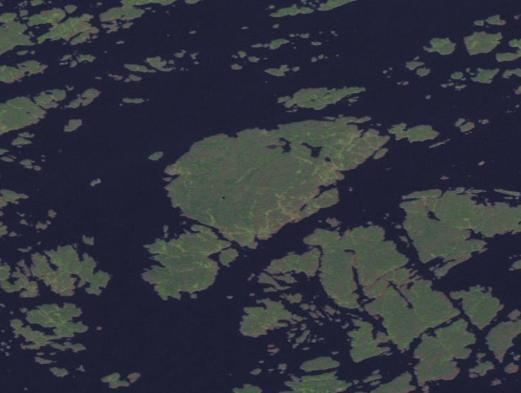 Möja, Sweden. Aerial view.